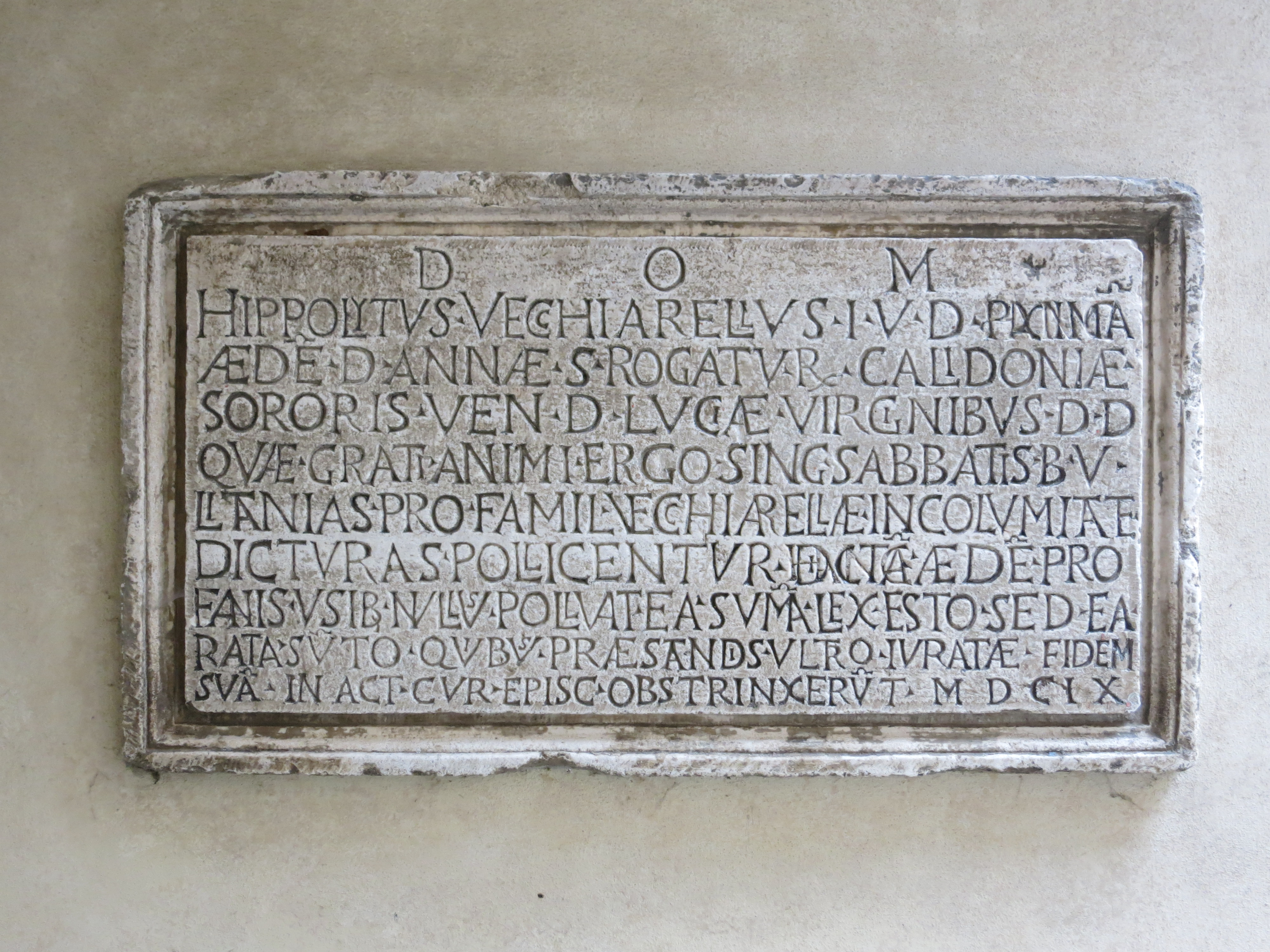 Vecchiarelli Palace - Rieti, Lazio, Italy